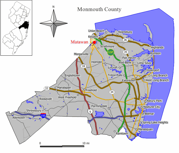 Source: Jim Irwin